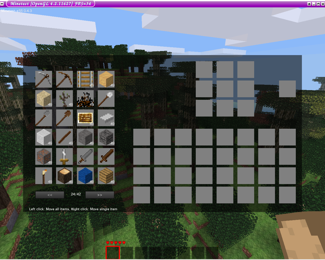 Screenshot of the game's Creative Mode showing the recently-upgraded inventory